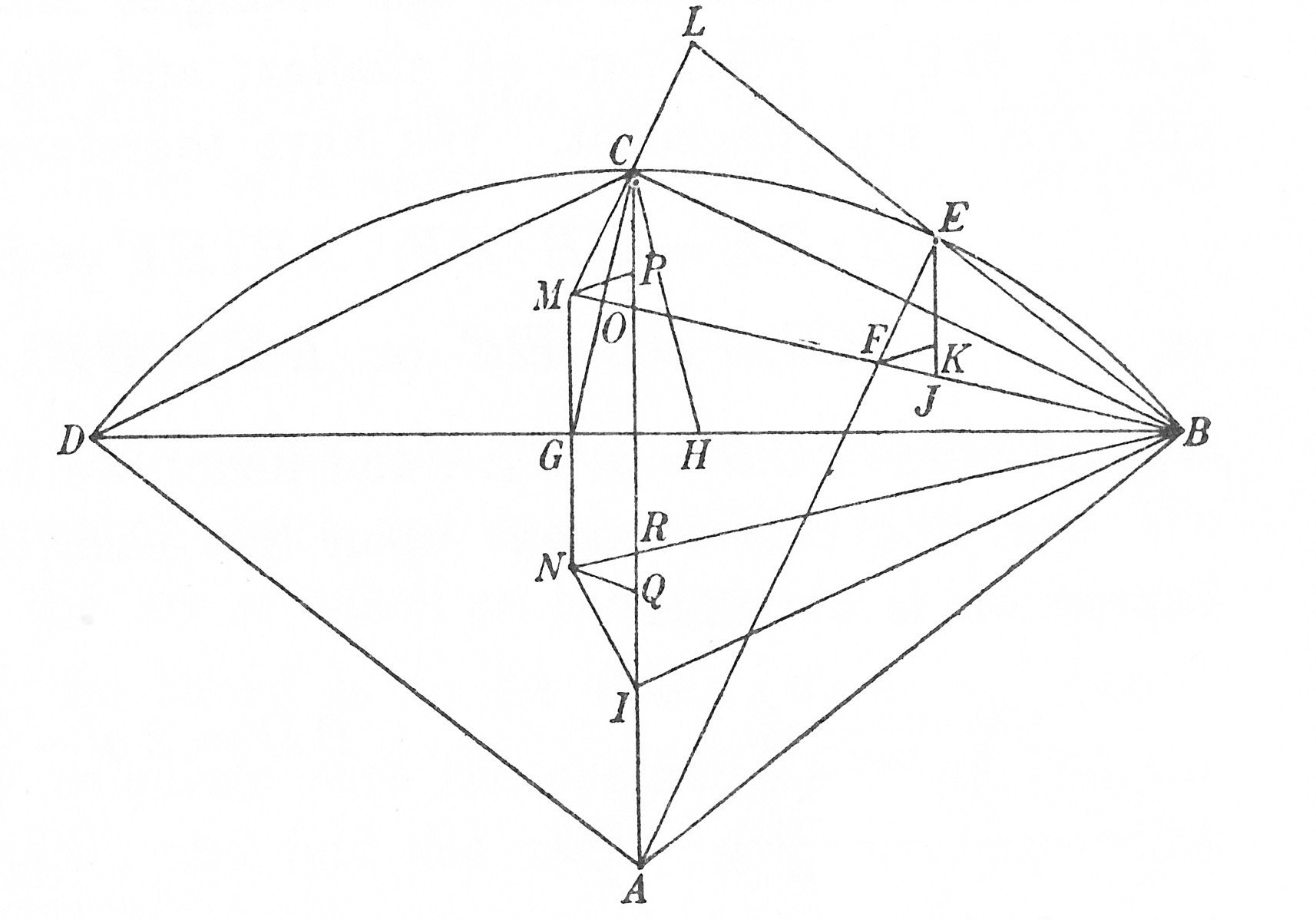 clyclotomic continuous proportion methd for dissection an arc